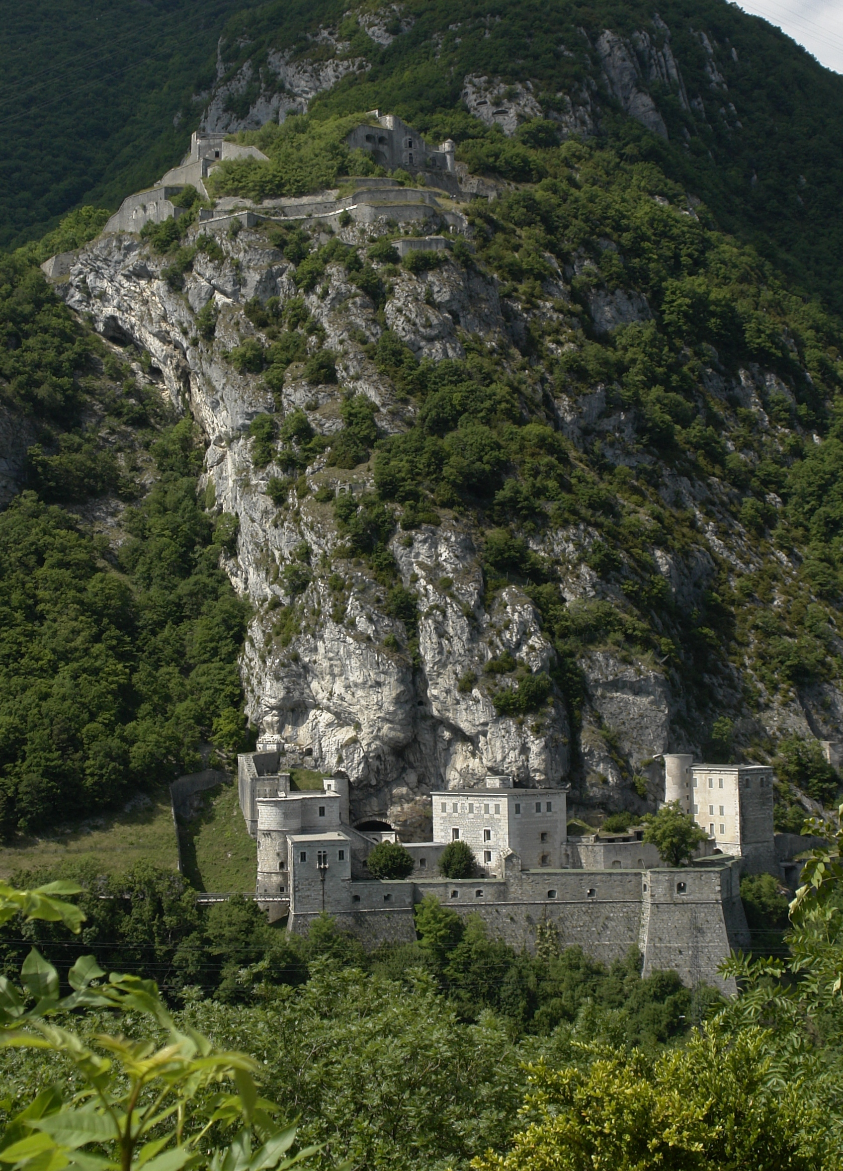 Fort l’Écluse, in Léaz (Ain, Rhône-Alpes, France), from the D 908 road.